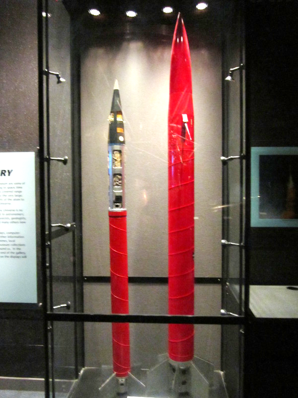 Skua and Petrel sounding rockets, World Museum Liverpool, England.